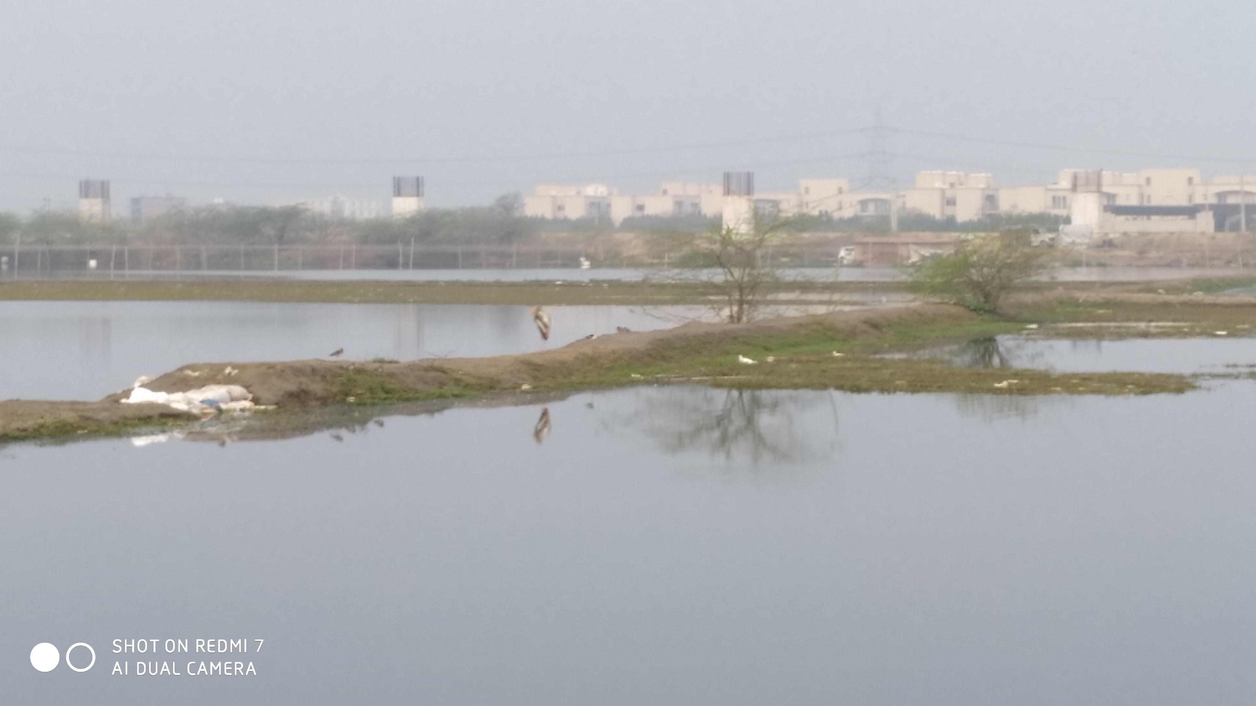 This Photo Show in Sarsai Nawar Jheel Etawah Uttar Pradesh India